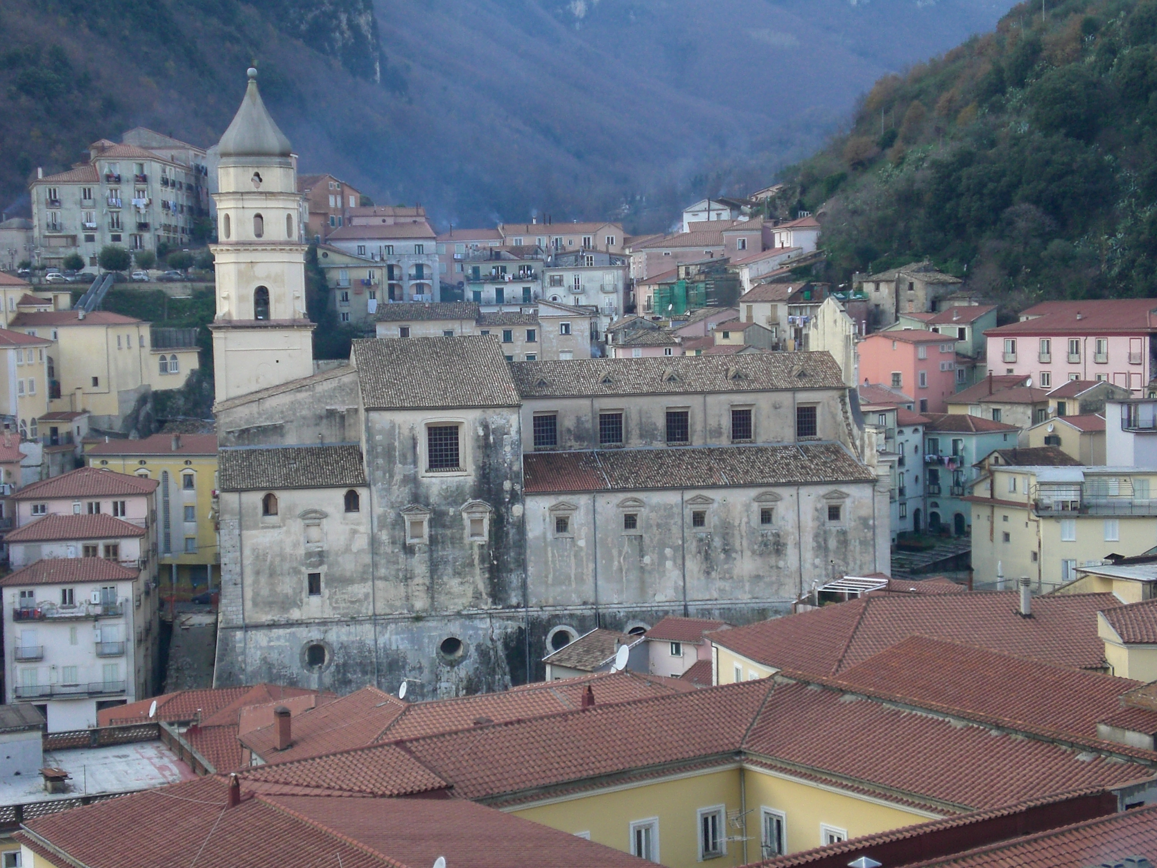 Cattedrale di Santa Maria della Pace a Campagna (SA).